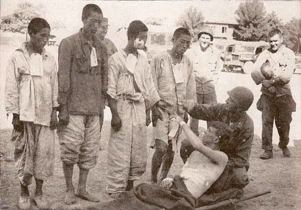 A survivor of the Hill 303 massacre (Korean War, 1950) points out one of the perpetrators